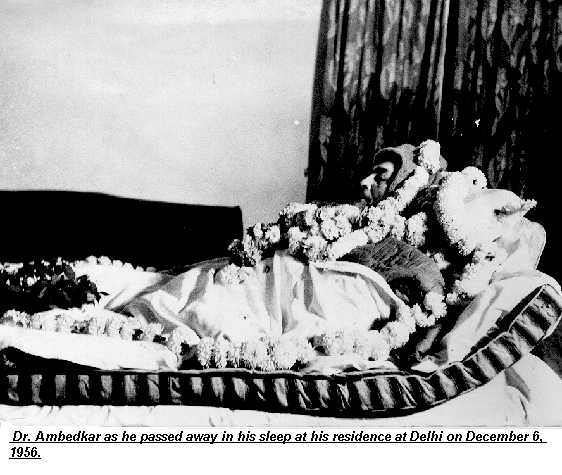 Maha Parinirvana of Dr. Babasaheb Ambedkar